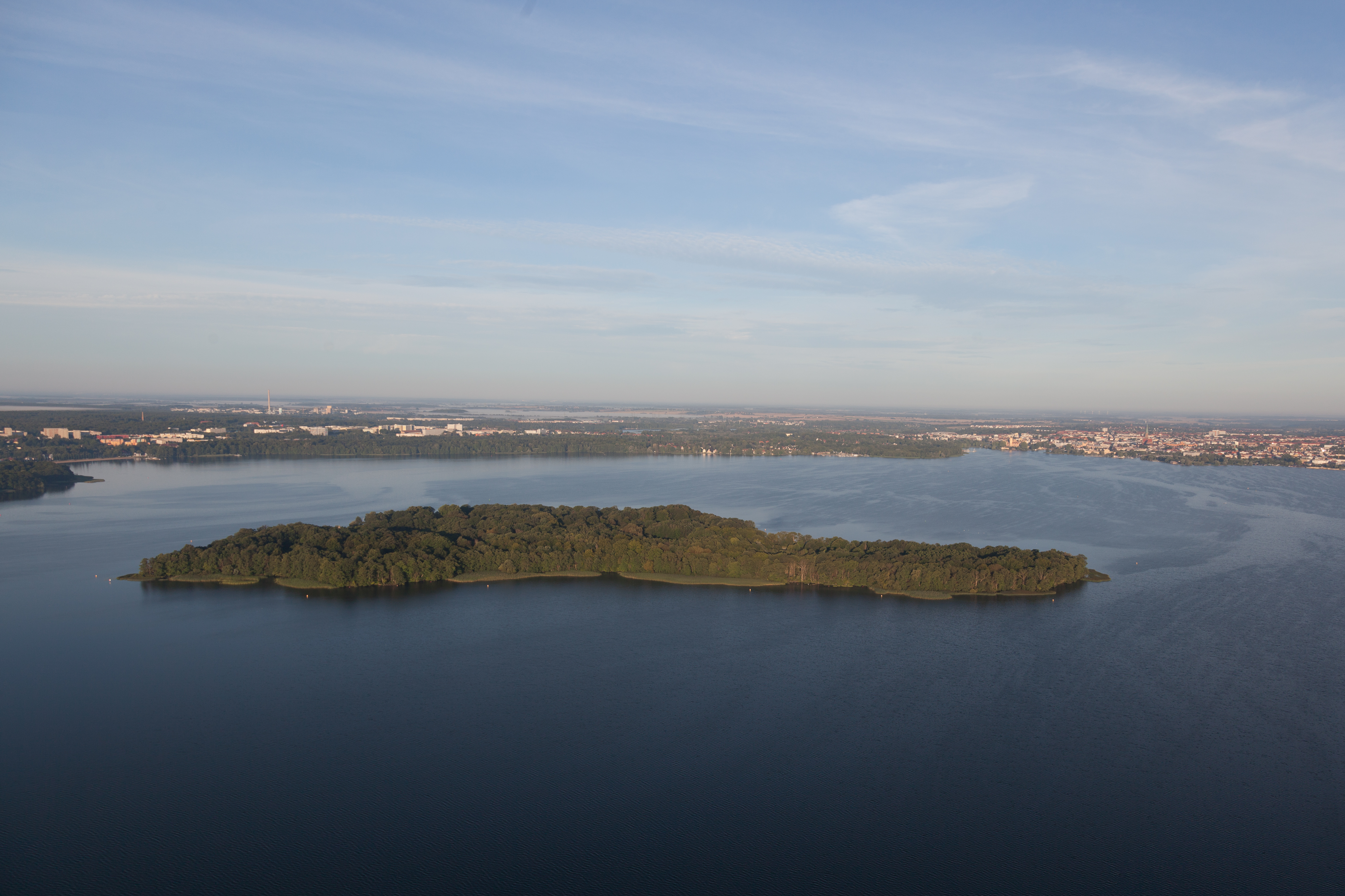 Kaninchenwerder aerial view